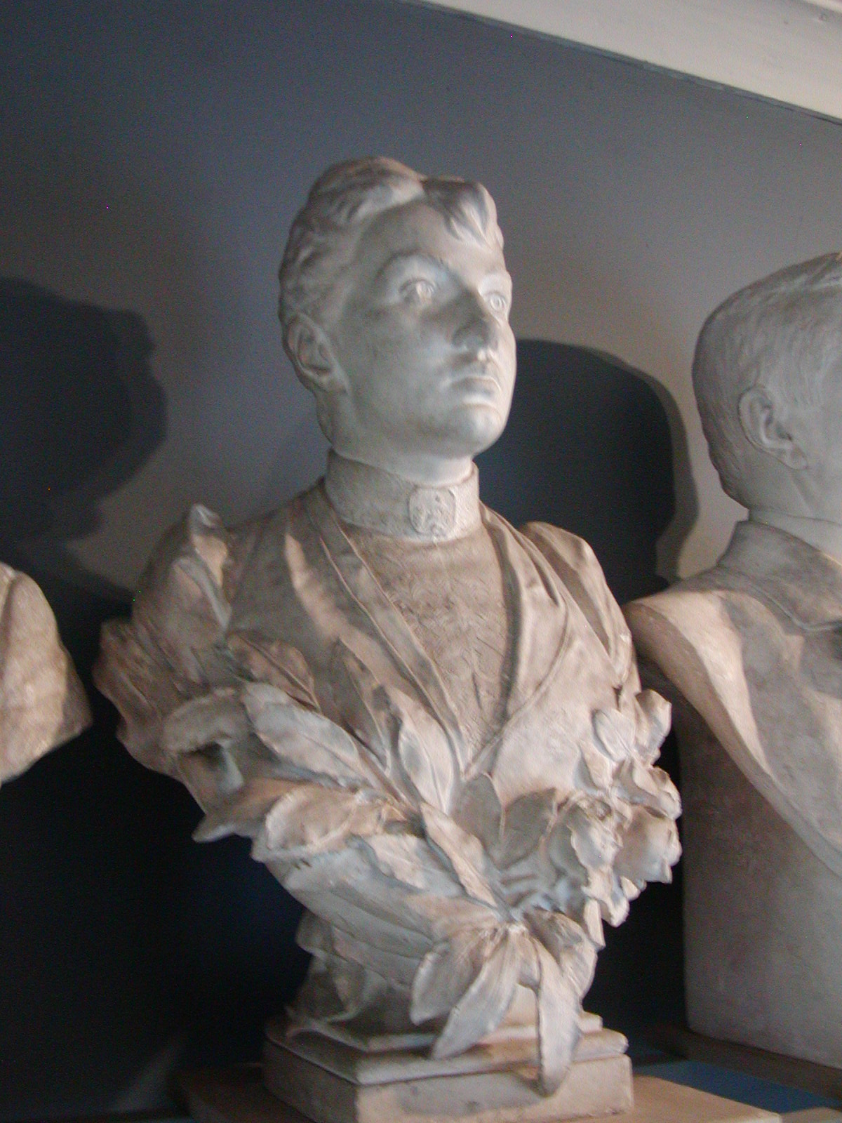 Bust of Sofia Kovalevskaya by Walter Runeberg (son of Johan Ludvig Runeberg) on display at the Runeberg Museum